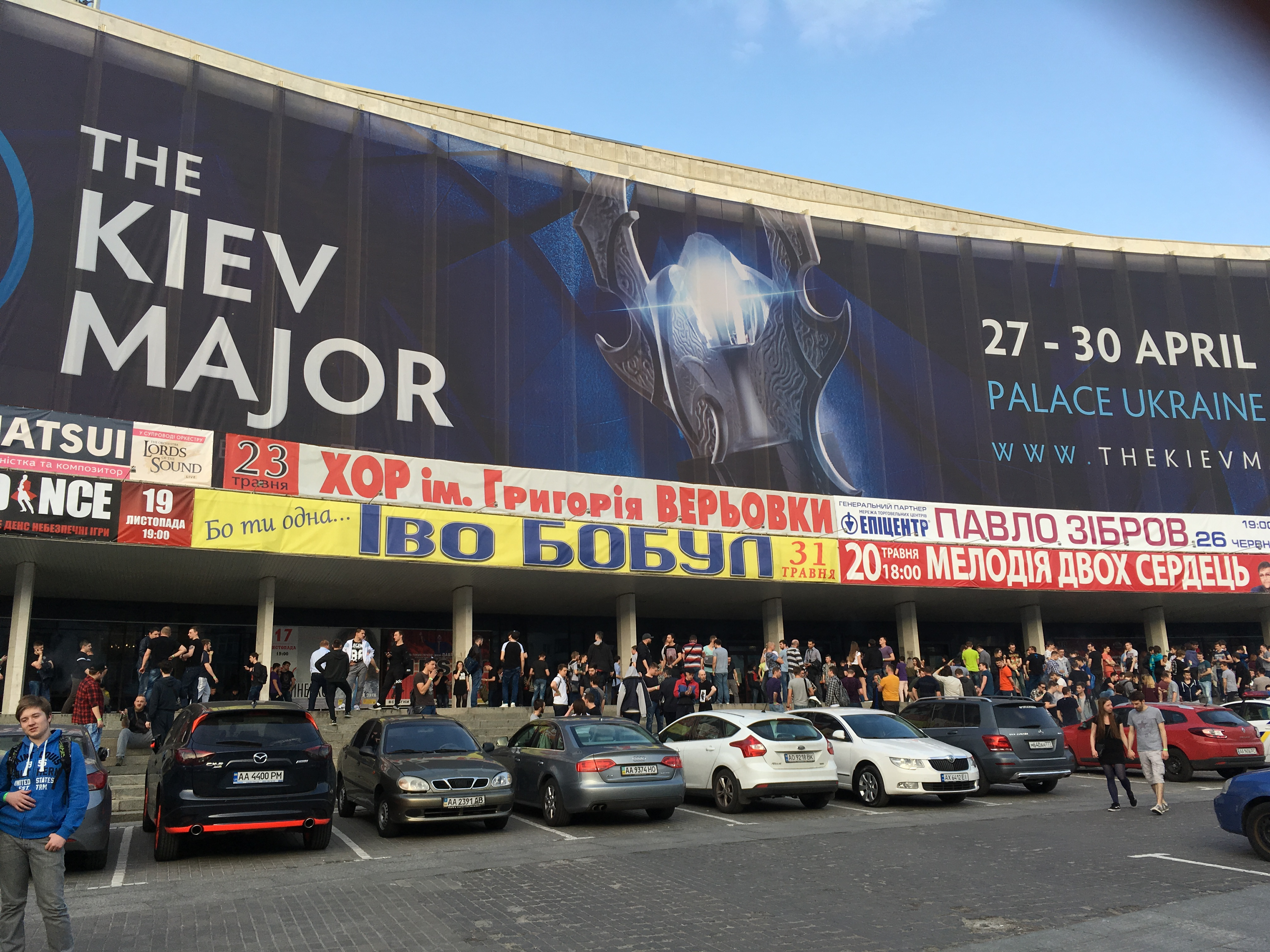 The Kiev Major 2017